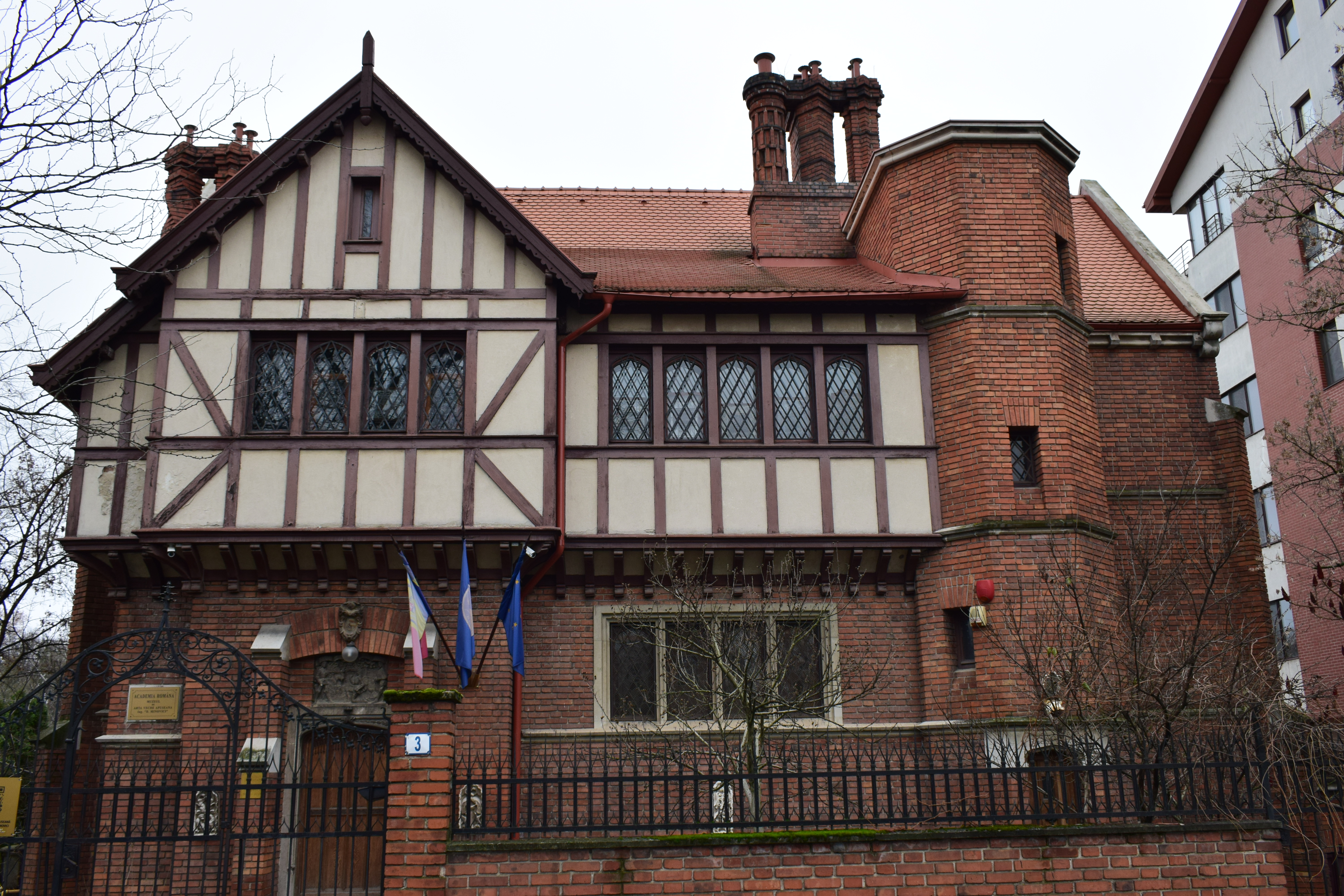 Dipl. Eng. Dumitru Minovici's villa in Bucharest, Băneasa neighborhood - front view